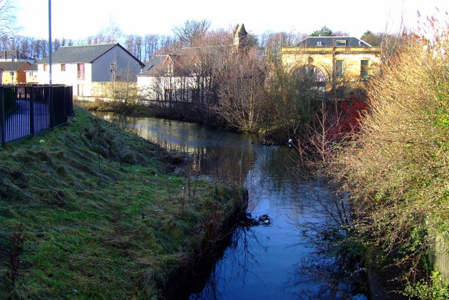 Remains of the Glasgow and Ardrossan Canan at Ferguslie Mills, Paisley, Scotland